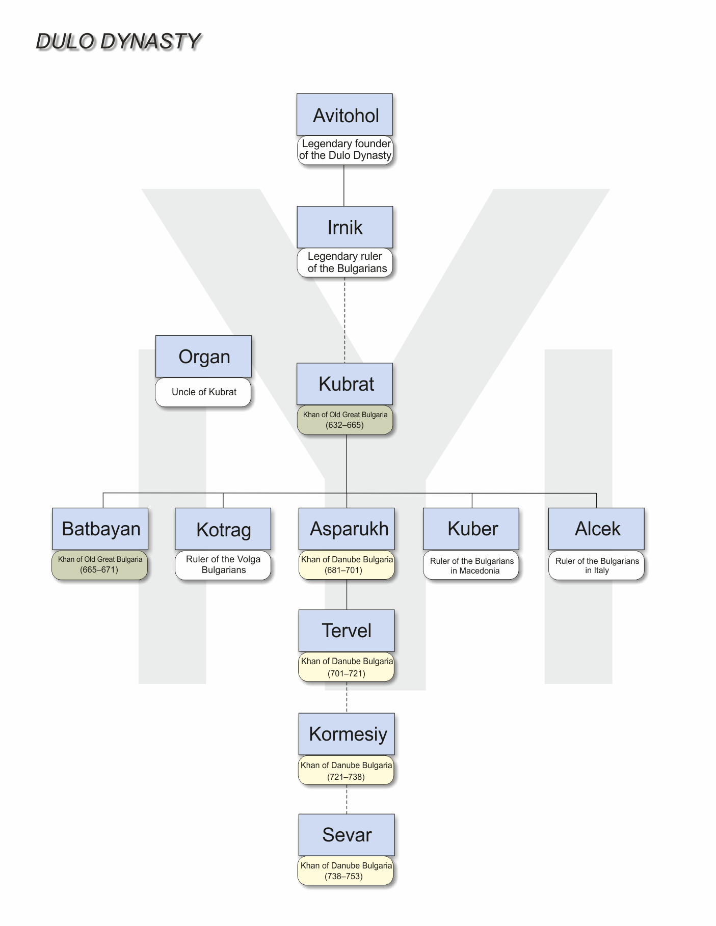 Dulo Dynasty